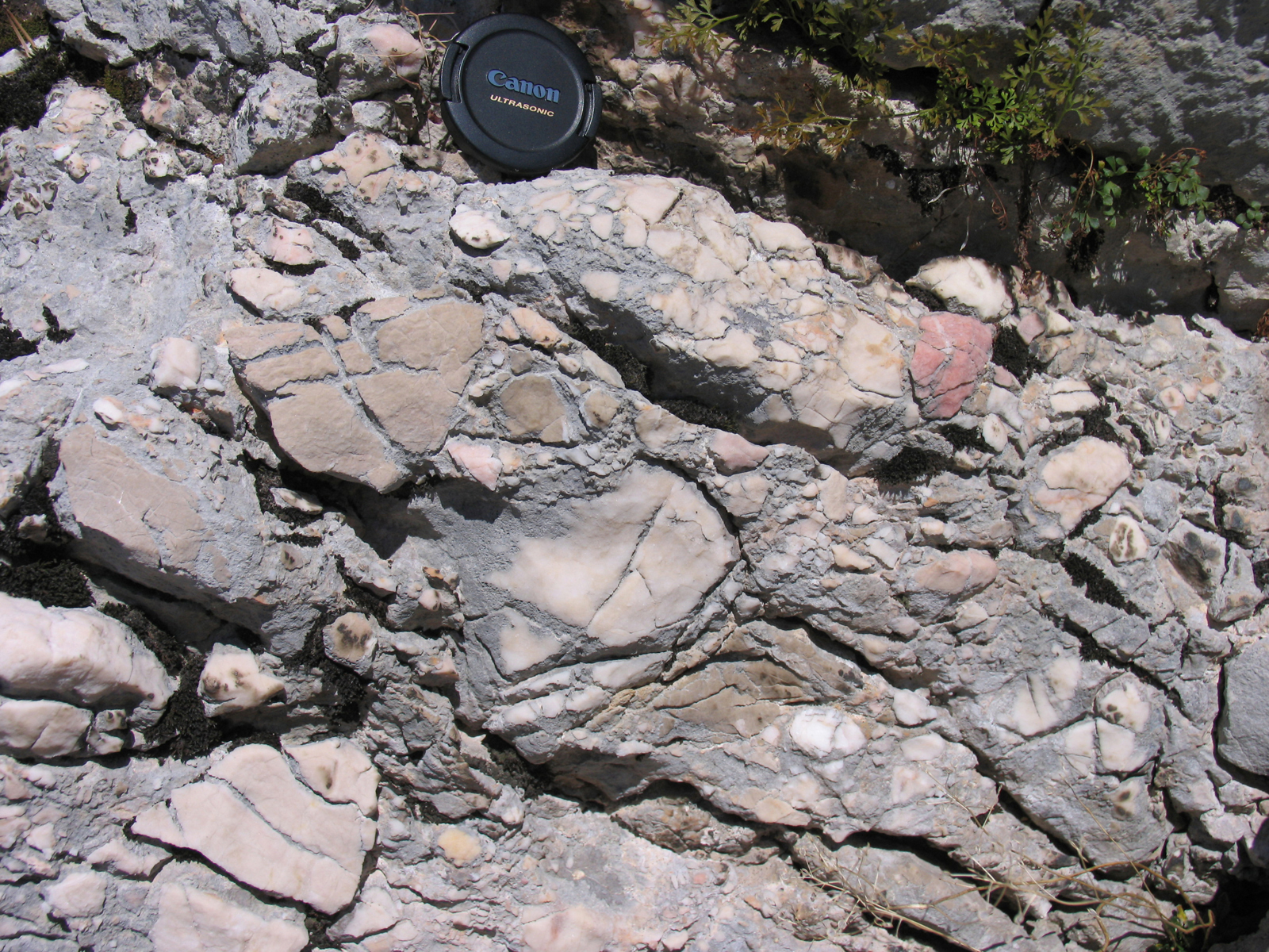 Velebit breccia (“Jelar” breccia), Croatien Dinaric Alps, Velebit. Geology: The carbonate breccia are chaotically fractured by strong tectonics of Middle Eocene to Middle Miocene age. They outcrop on the SW slope of the Velebit over a distance of more than 100km, also along the complete WE striking ‘Bakovac-graben’ and the Lika region. The broken zone is an essential feature of uvalas, distinguished from sinkholes by size and genesis. Uvalas are generated both by karstification and considerable faulting. Part of the breccia was diagenetically cemented by fine crystalline mass. Where not totally cemented, it is highly water permeable (karst).